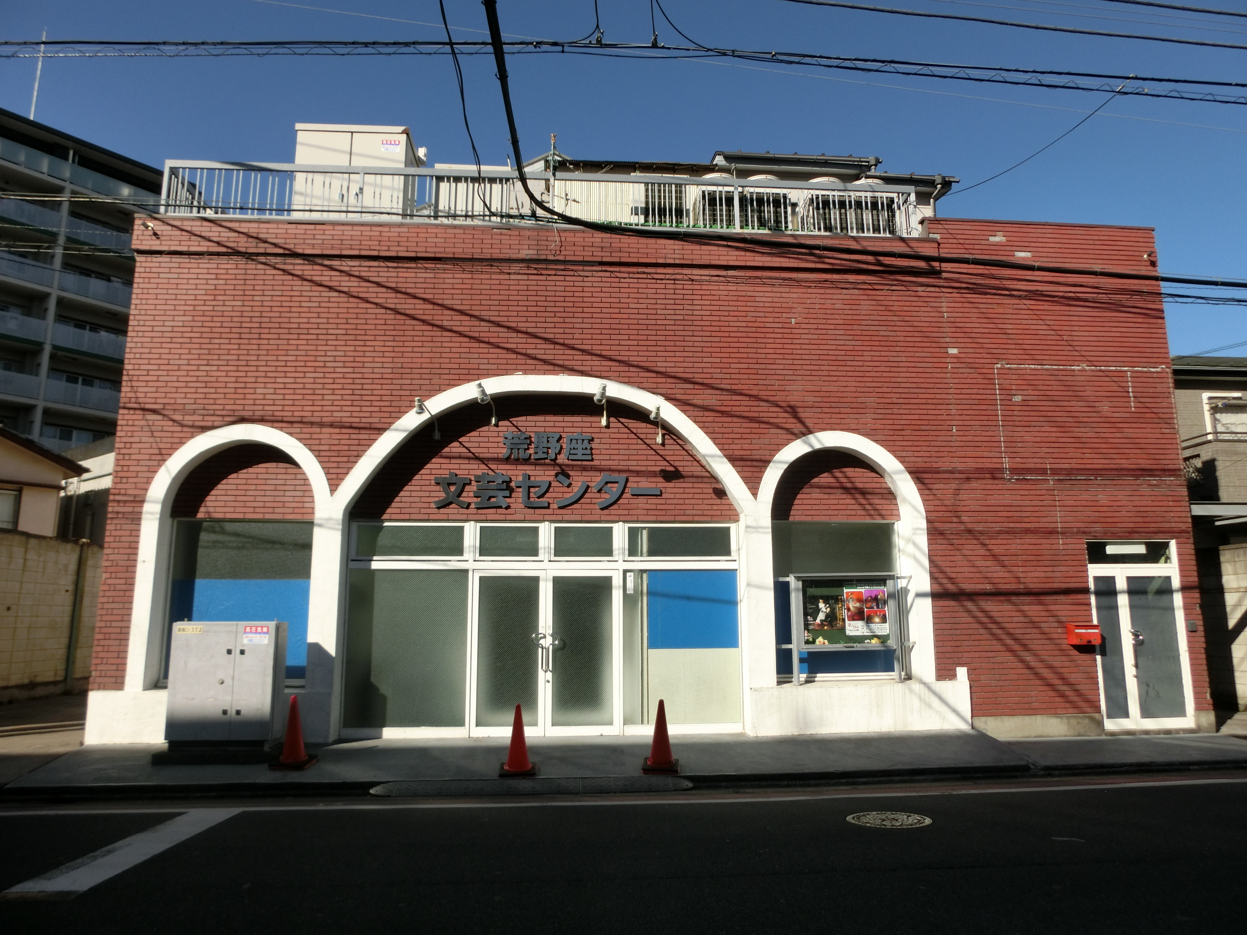 Koyaza Headquarters